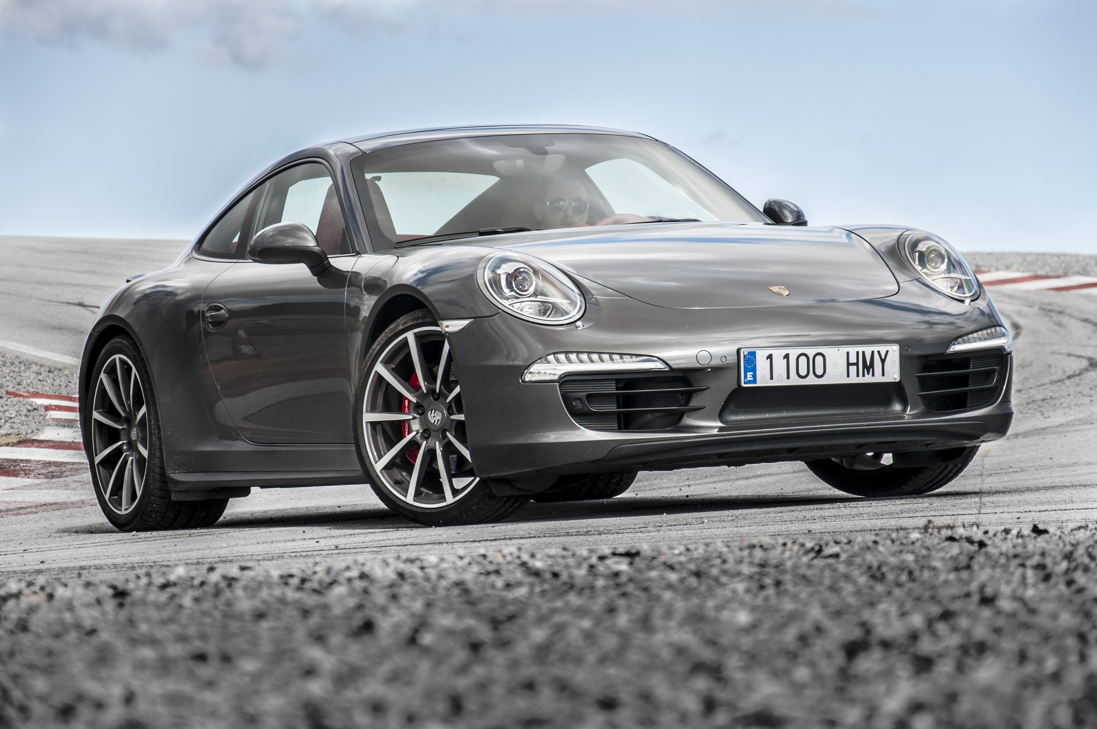 Test Drive for Diariomotor - Porsche 911 Carrera 4S vs Audi R8 Spyder.